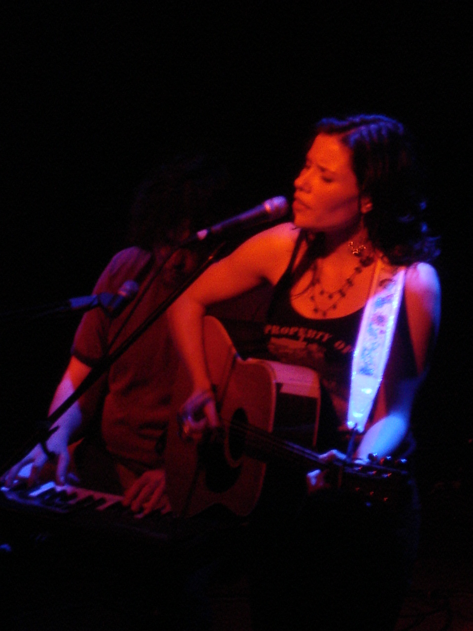 The songwriter Shannon McNally live from Headliners Music Hall in Louisville, KY (2-4-06).